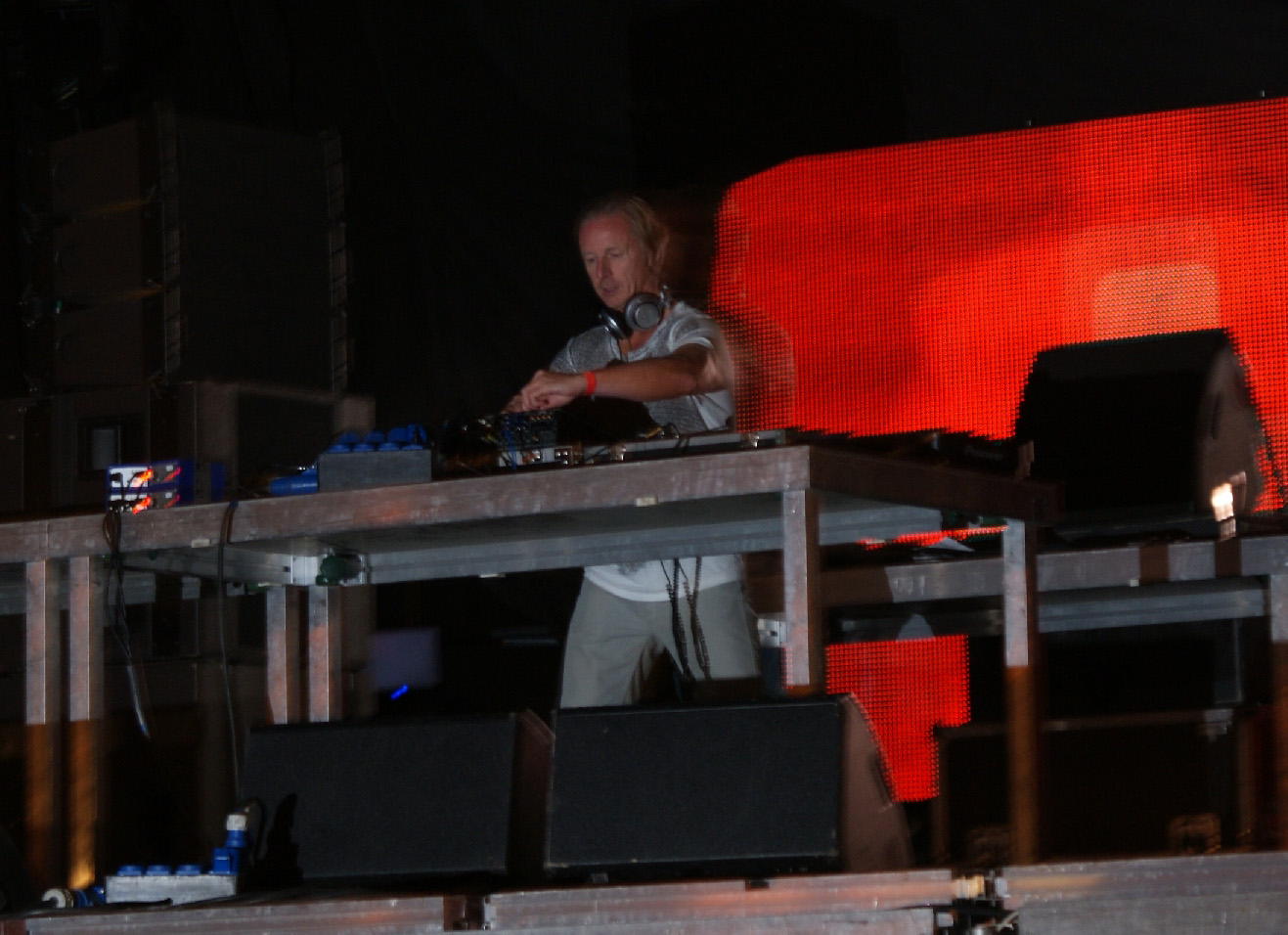 Audioriver Festival (7-9.08.2009, Płock, Poland)DJ Hell